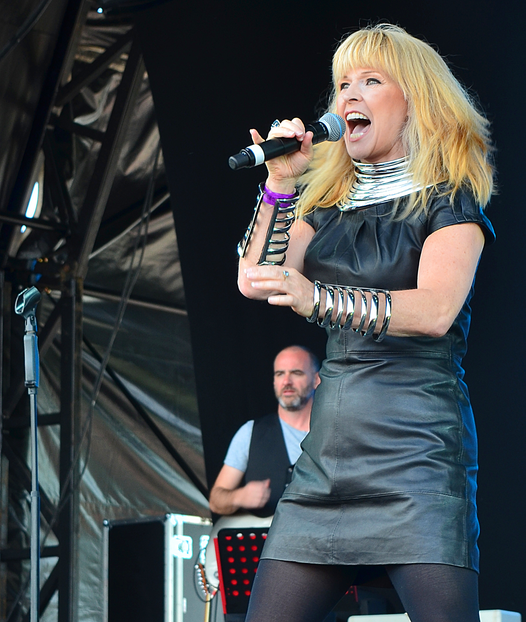 Toyah Willcox performing in 2014